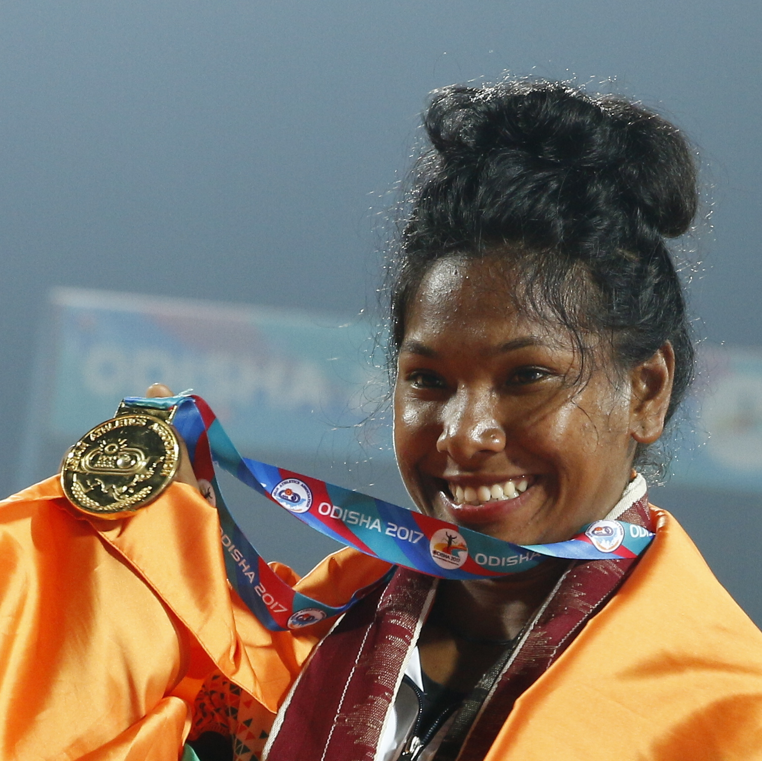 Athletes during 22nd Asian Athletics Championships in Bhubaneswar.